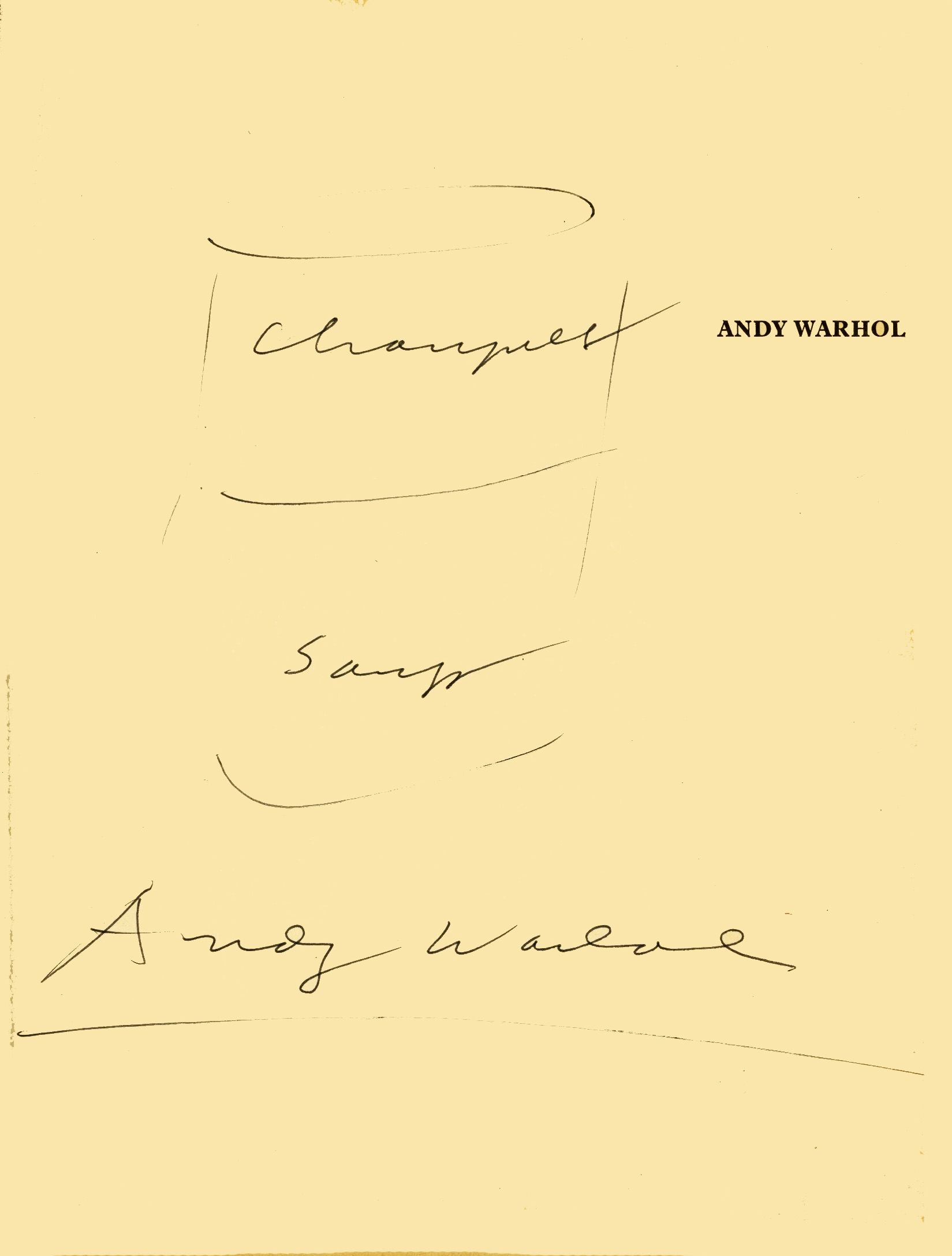 Autograph and sketch by Andy Warhol